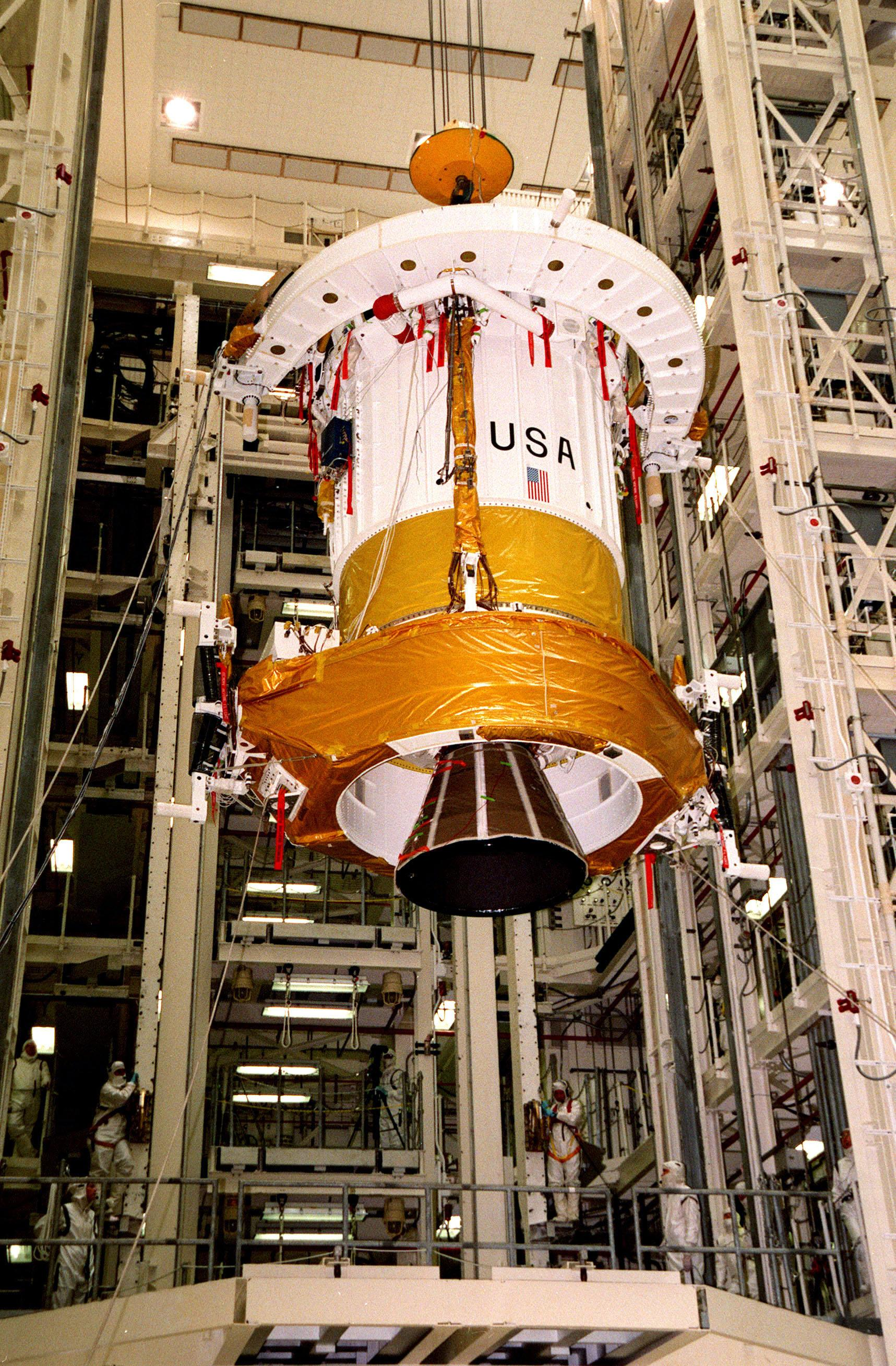 Orginal NASA Release to the picture: The Inertial Upper Stage (IUS) booster is moved toward a workstand in Kennedy Space Center's Vertical Processing Facility. The IUS will be mated with the Chandra X-ray Observatory and then undergo testing to validate the IUS/Chandra connections and check the orbiter avionics interfaces. Following that, an end-to-end test (ETE) will be conducted to verify the communications path to Chandra, commanding it as if it were in space. With the world's most powerful X-ray telescope, Chandra will allow scientists from around the world to see previously invisible black holes and high-temperature gas clouds, giving the observatory the potential to rewrite the books on the structure and evolution of our universe. Chandra is scheduled for launch July 22 aboard Space Shuttle Columbia, on mission STS-93